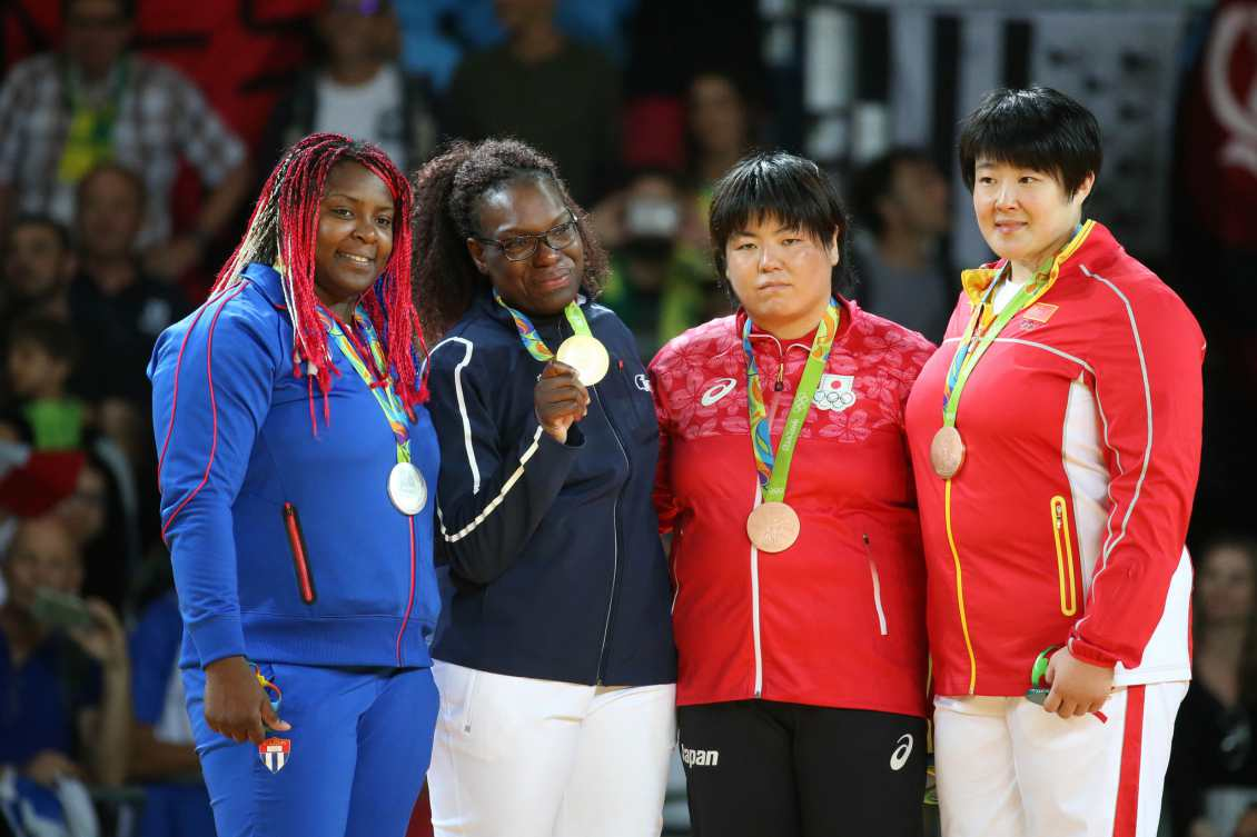 Medallists in female judo of +78 kg at the 2016 Summer Olympic Games. Emilie Andeol, France - gold. Idalys Orti, Cuba - silver. The Chinese woman of Song Yu and the Japanese of Kanae Yamabe - bronze.